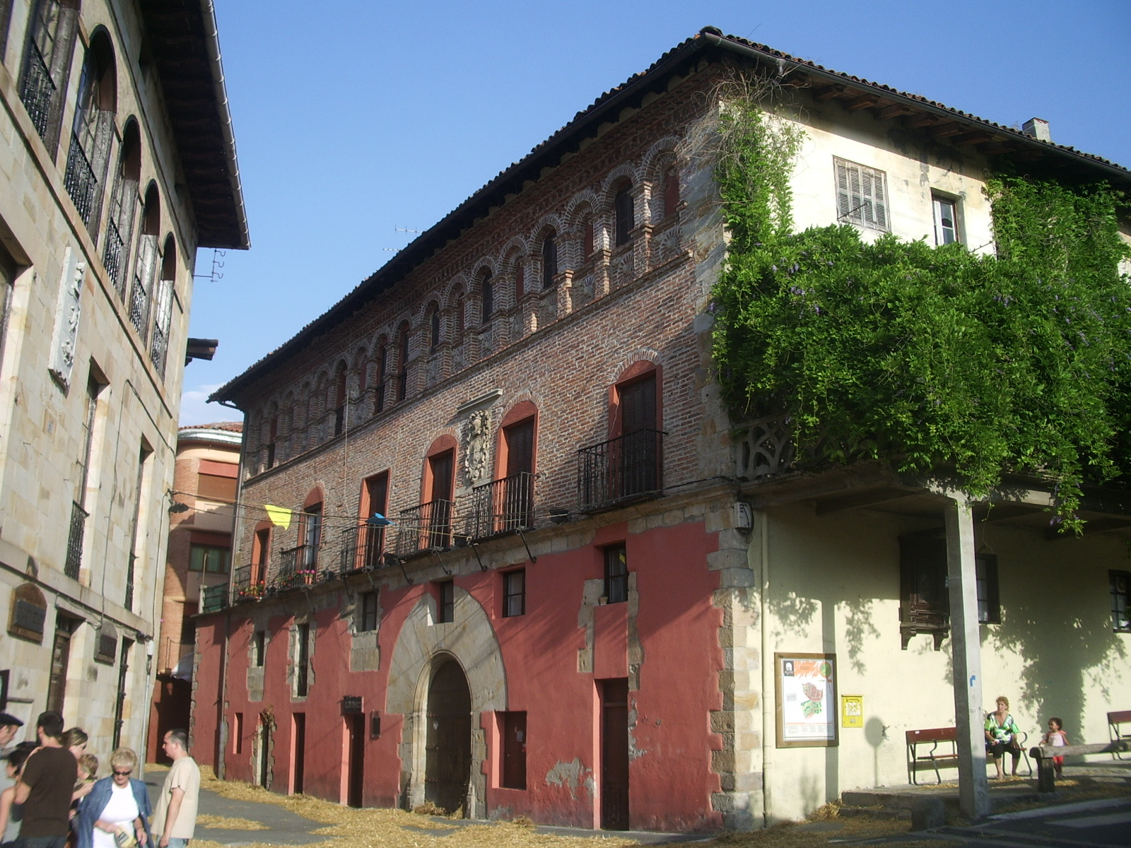 Arrue palace (Segura, Guipuscoa, Basque Country)